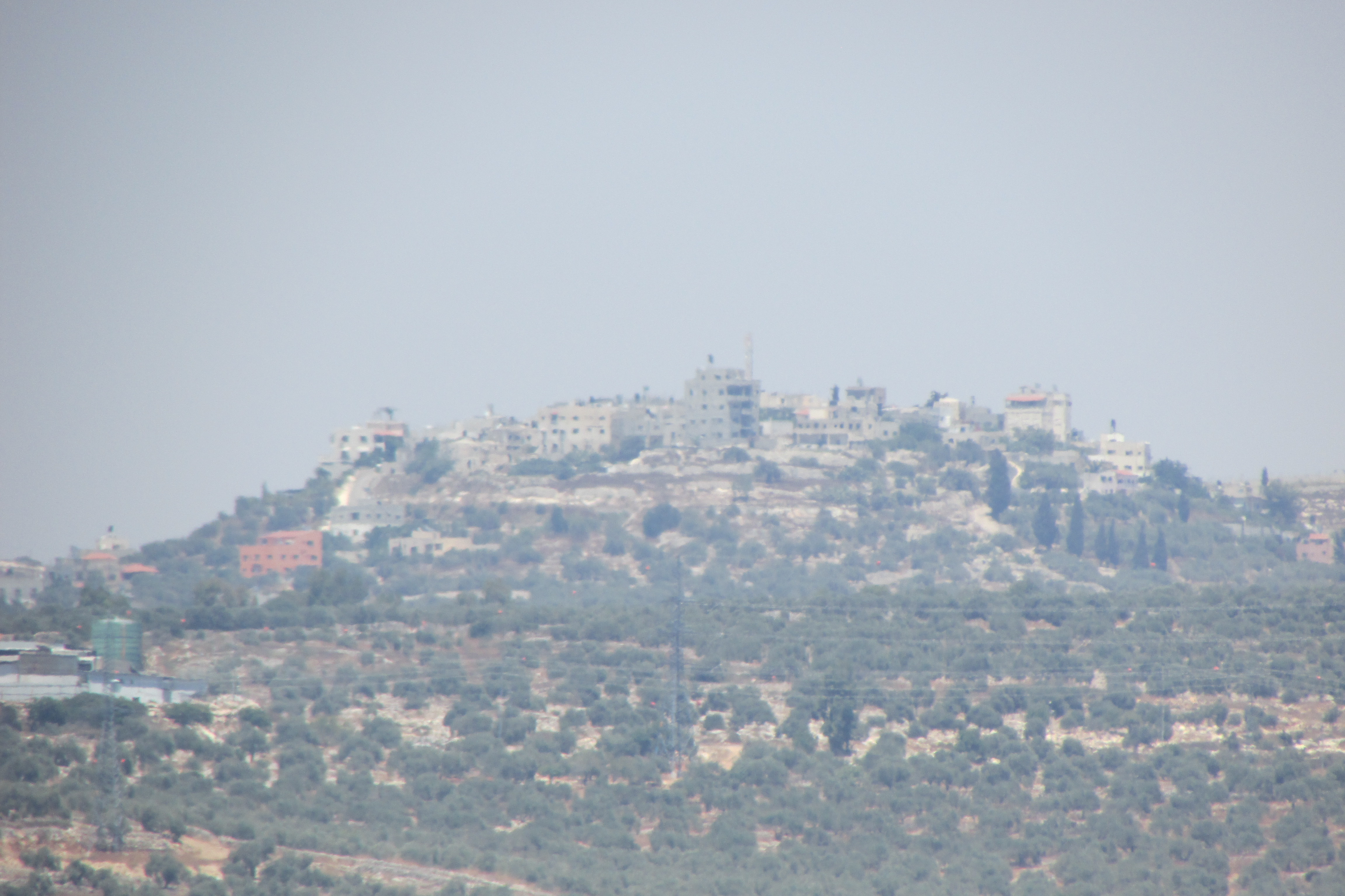 Far'ata from Yakir